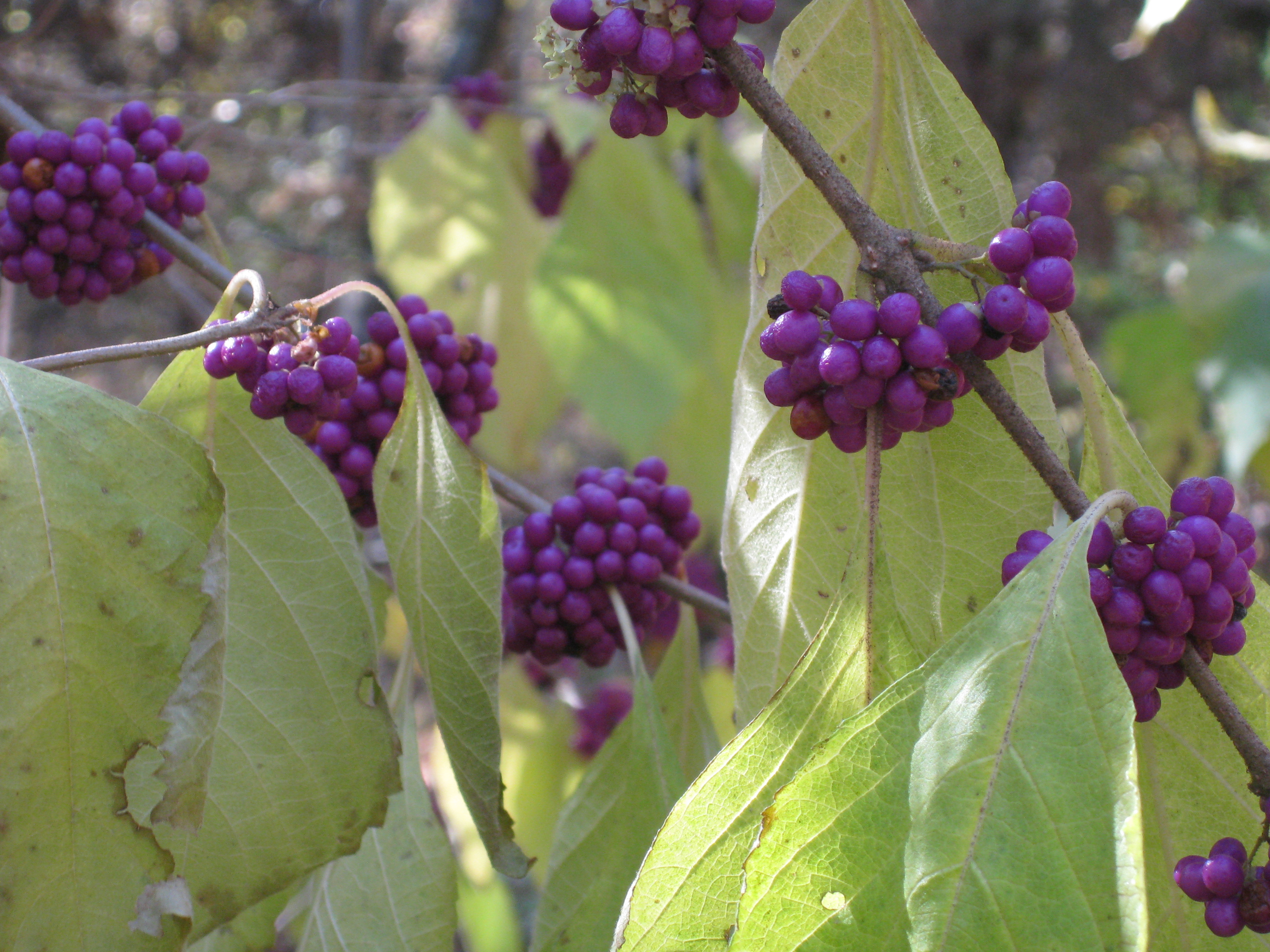 Close up of american beautybush taken in Fall 2010 at Ray Roberts Lake in Texas